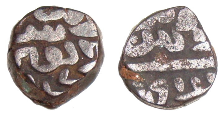 Quarter Tanka Of Ibrahim Lodhi